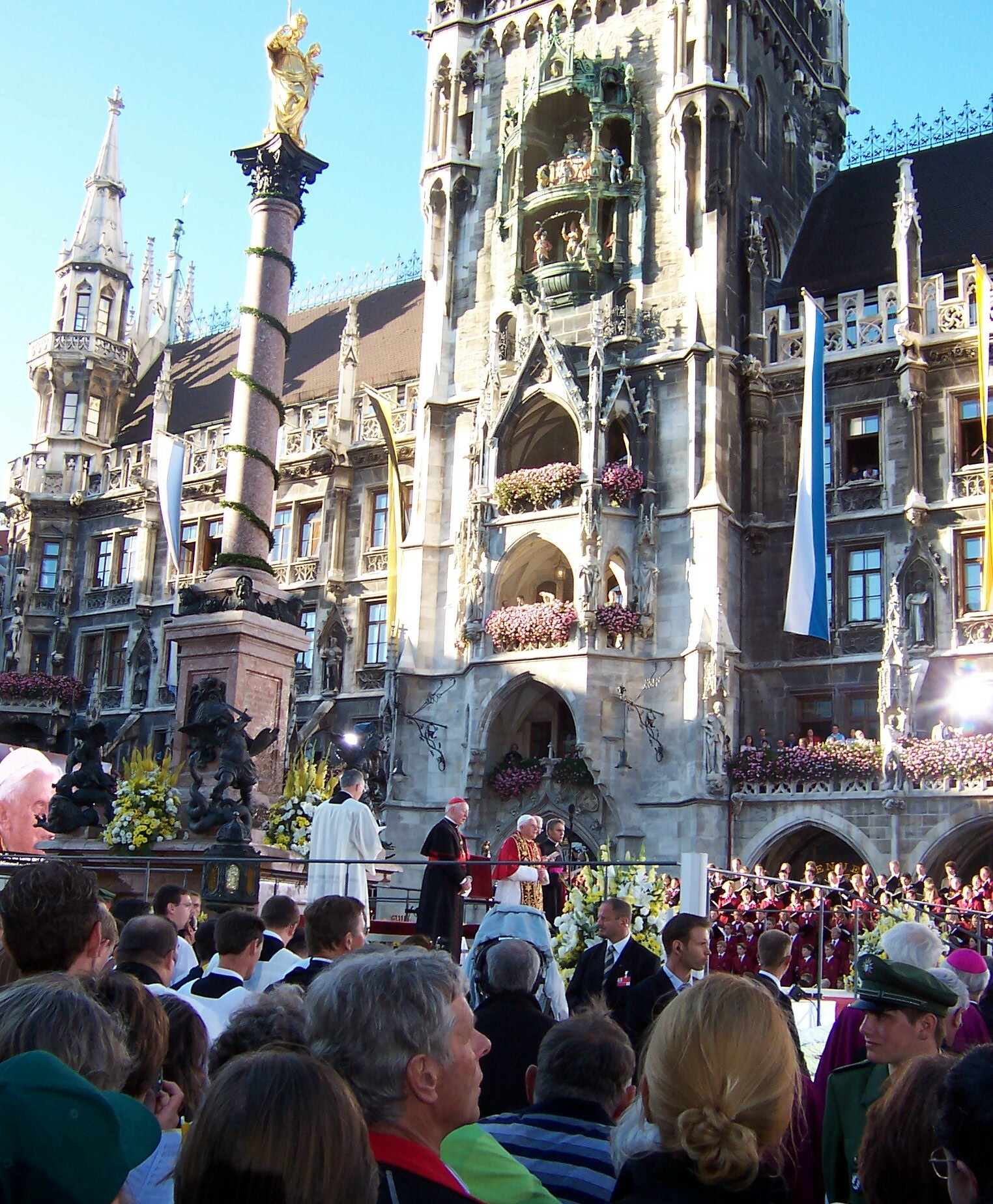 Pope Benedict XVI in Munich, at the Marian column